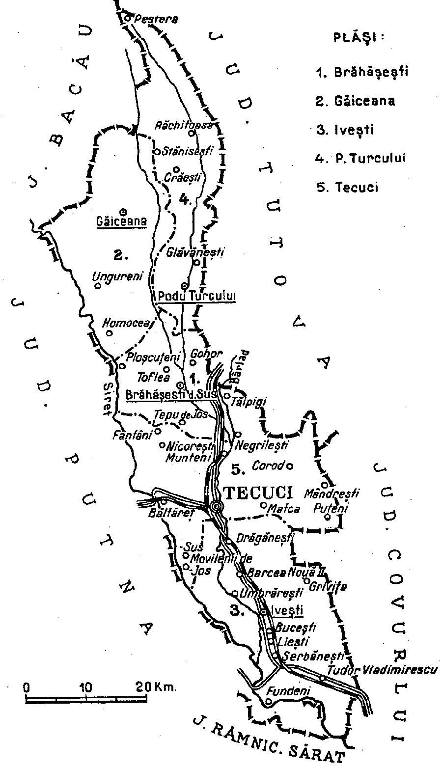 Map of Tecuci interwar county, Kingdom of Romania (1938).